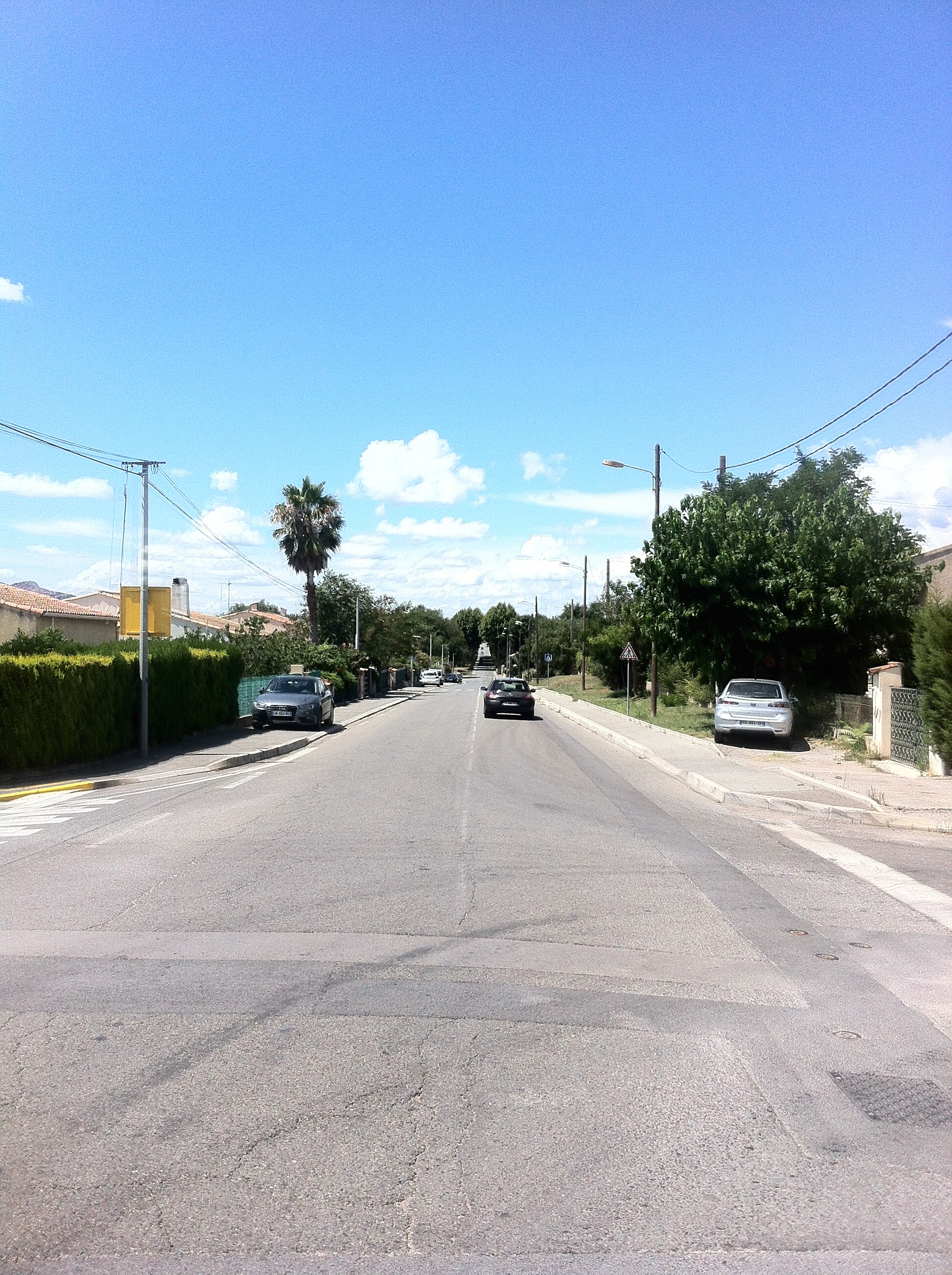 Avenue du 15 Août 1944 in Puget-sur-Argens.